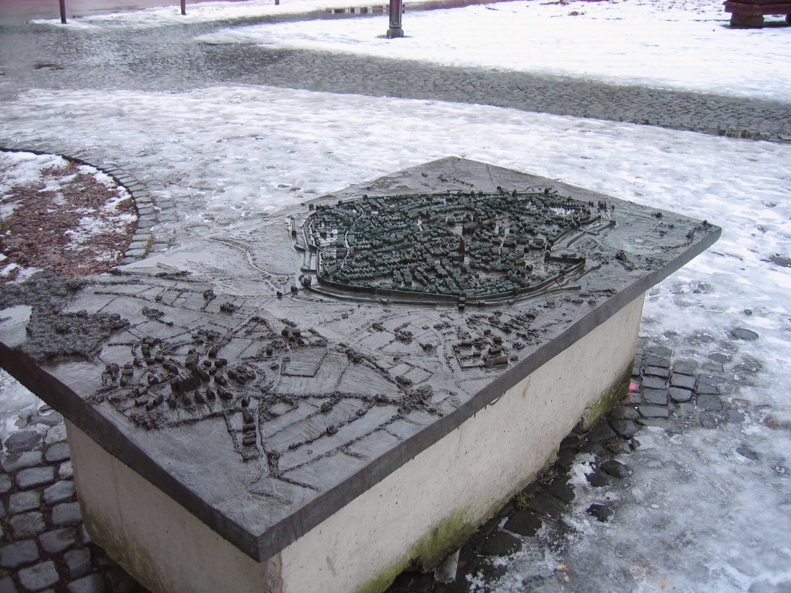 in Herford, District of Herford, North Rhine-Westphalia, Germany.